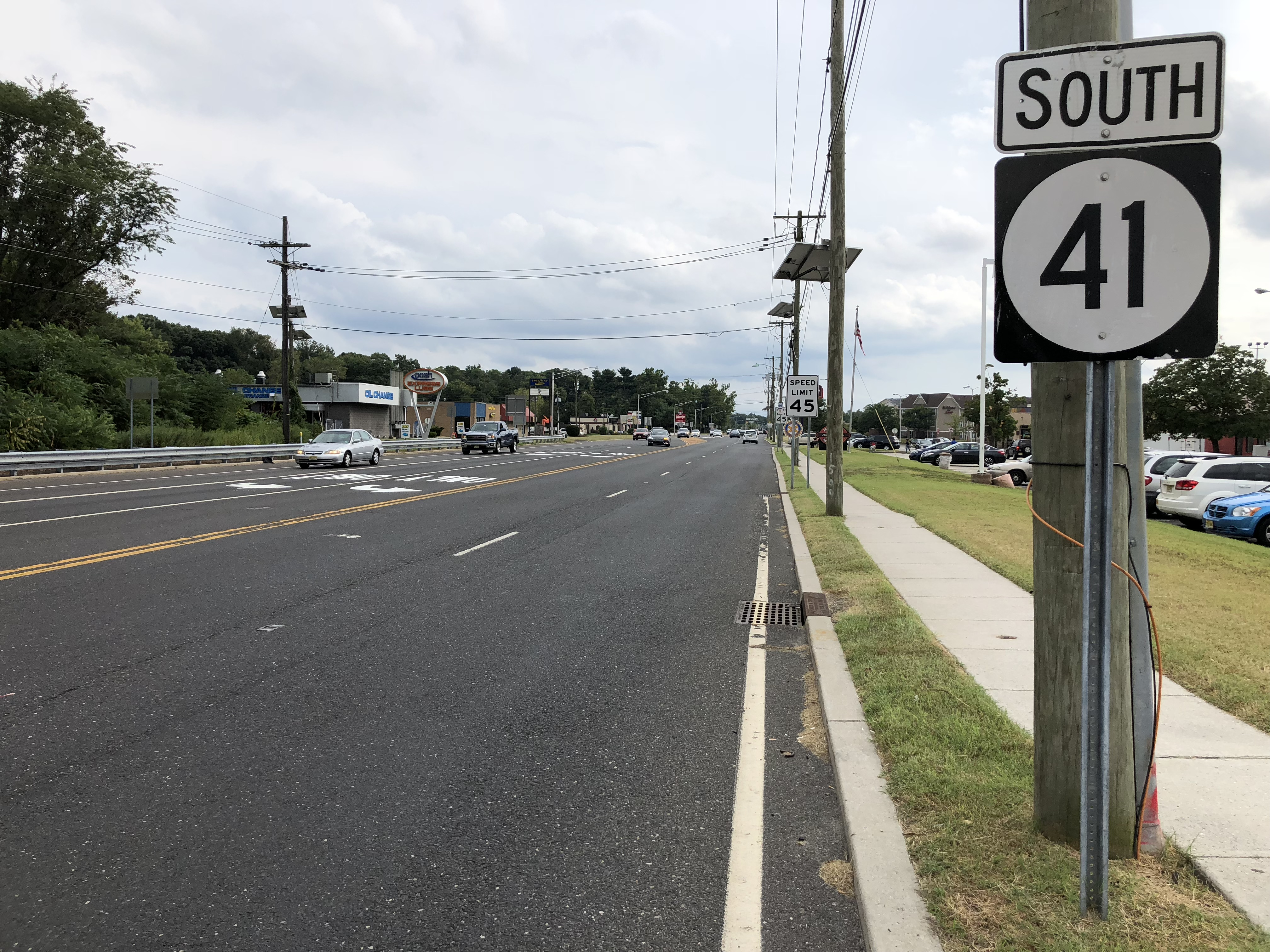 View south along New Jersey State Route 41 (Hurffville Road) just south of Gloucester County Route 544 (Clements Bridge Road) in Deptford Township, Gloucester County, New Jersey